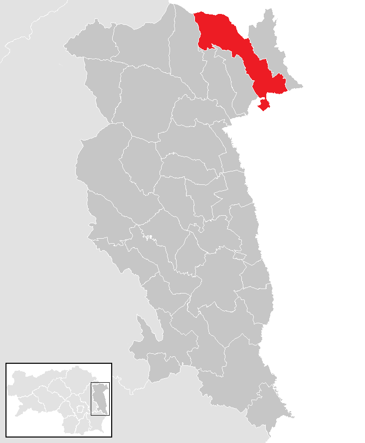 district Hartberg-Fürstenfeld